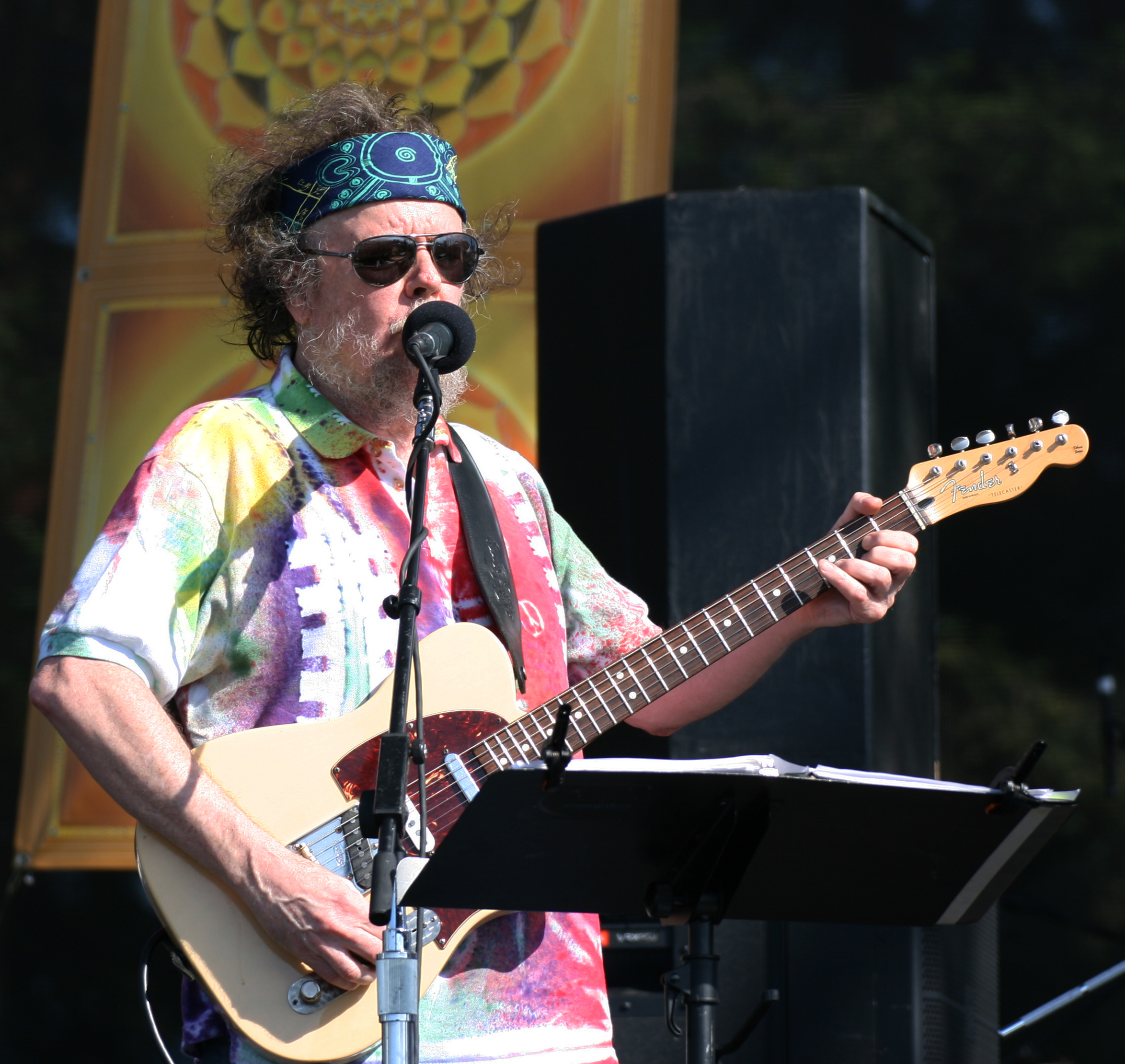 Image Of David Nelson